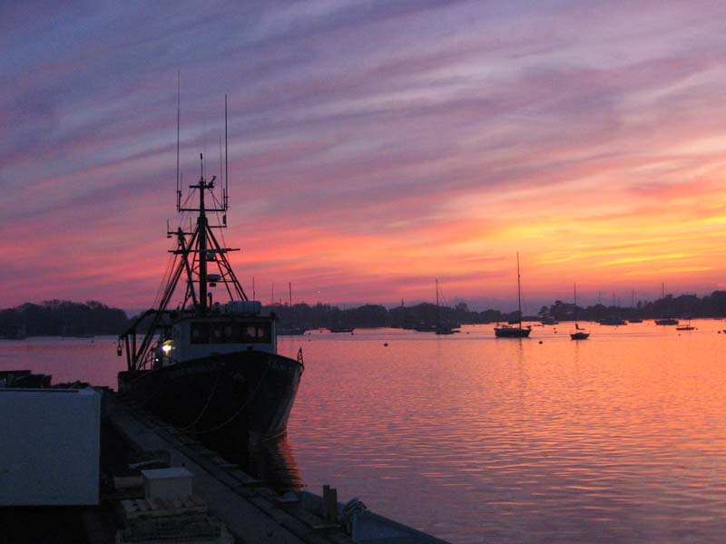 The U.S. National Oceanic and Atmospheric Administration fisheries research vessel RV Gloria Michelle moored at the NOAA Northeast Fisheries Science Center Woods Hole Laboratory dock at Woods Hole, Massachusetts